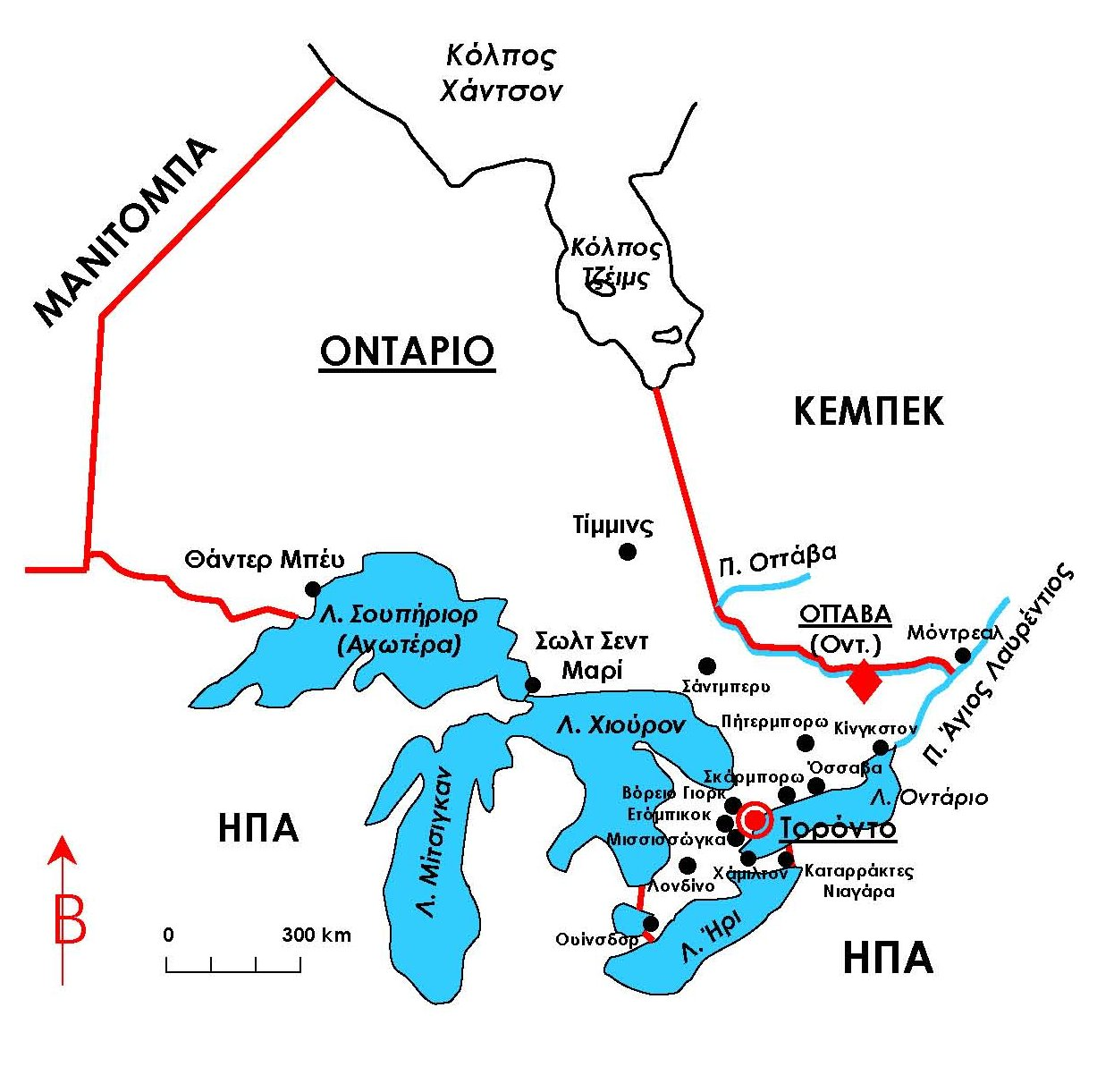 Map of Ontario, Canada, in Greek